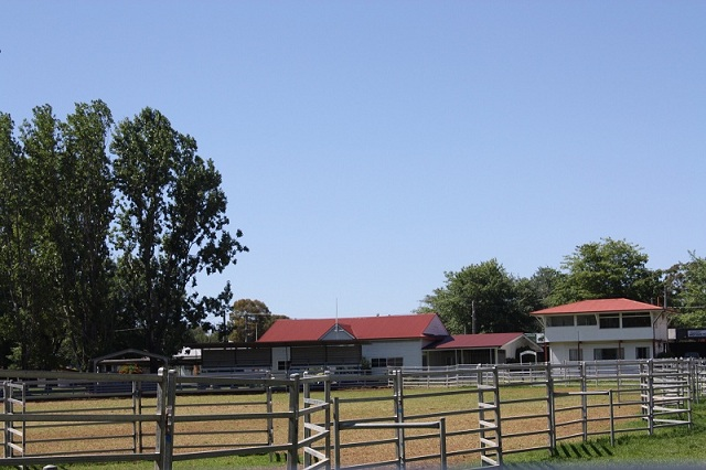 Glen Innes Showground: View to refreshment rooms and show society office